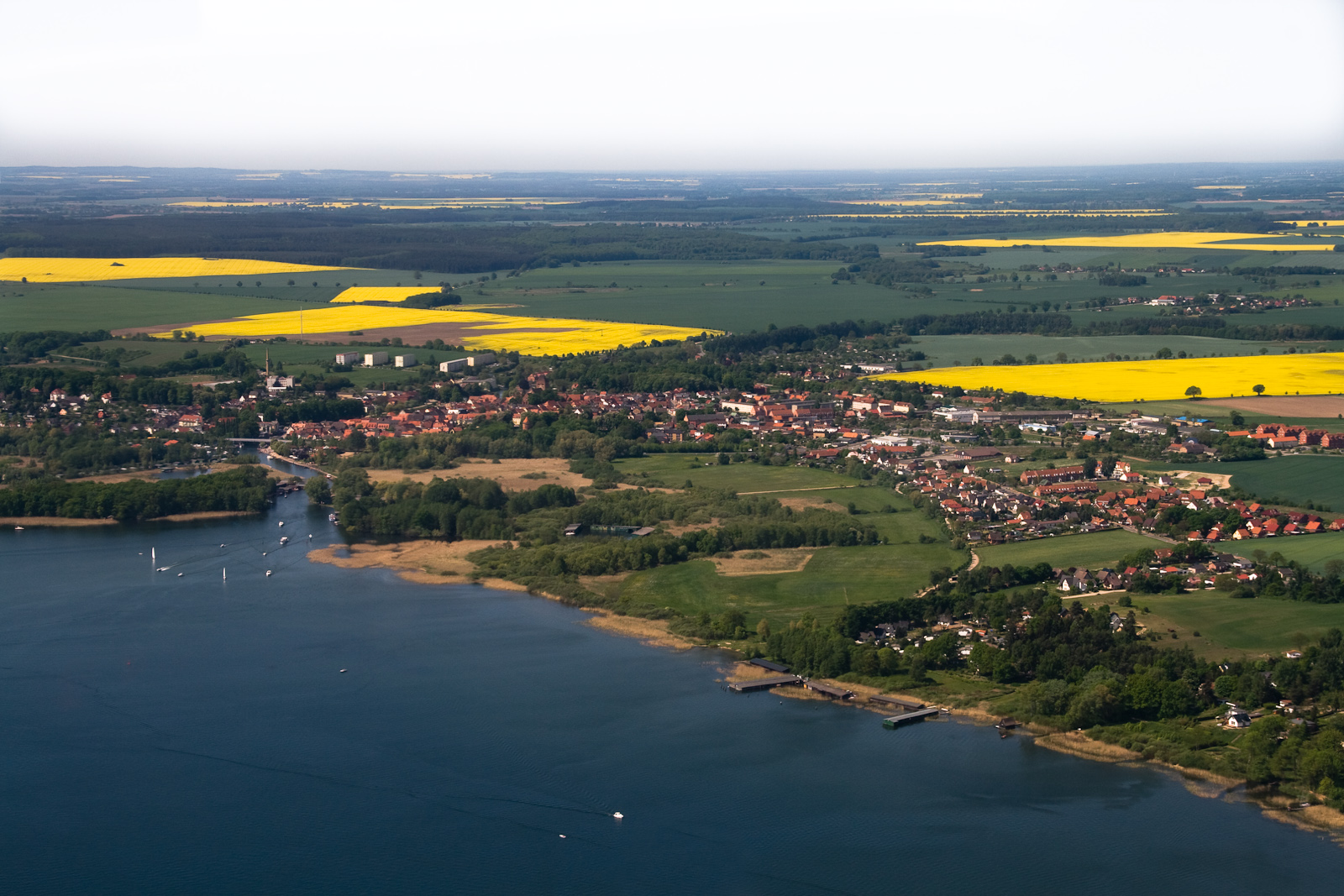 Plau am See from northeast direction at the flight over the Plauer See